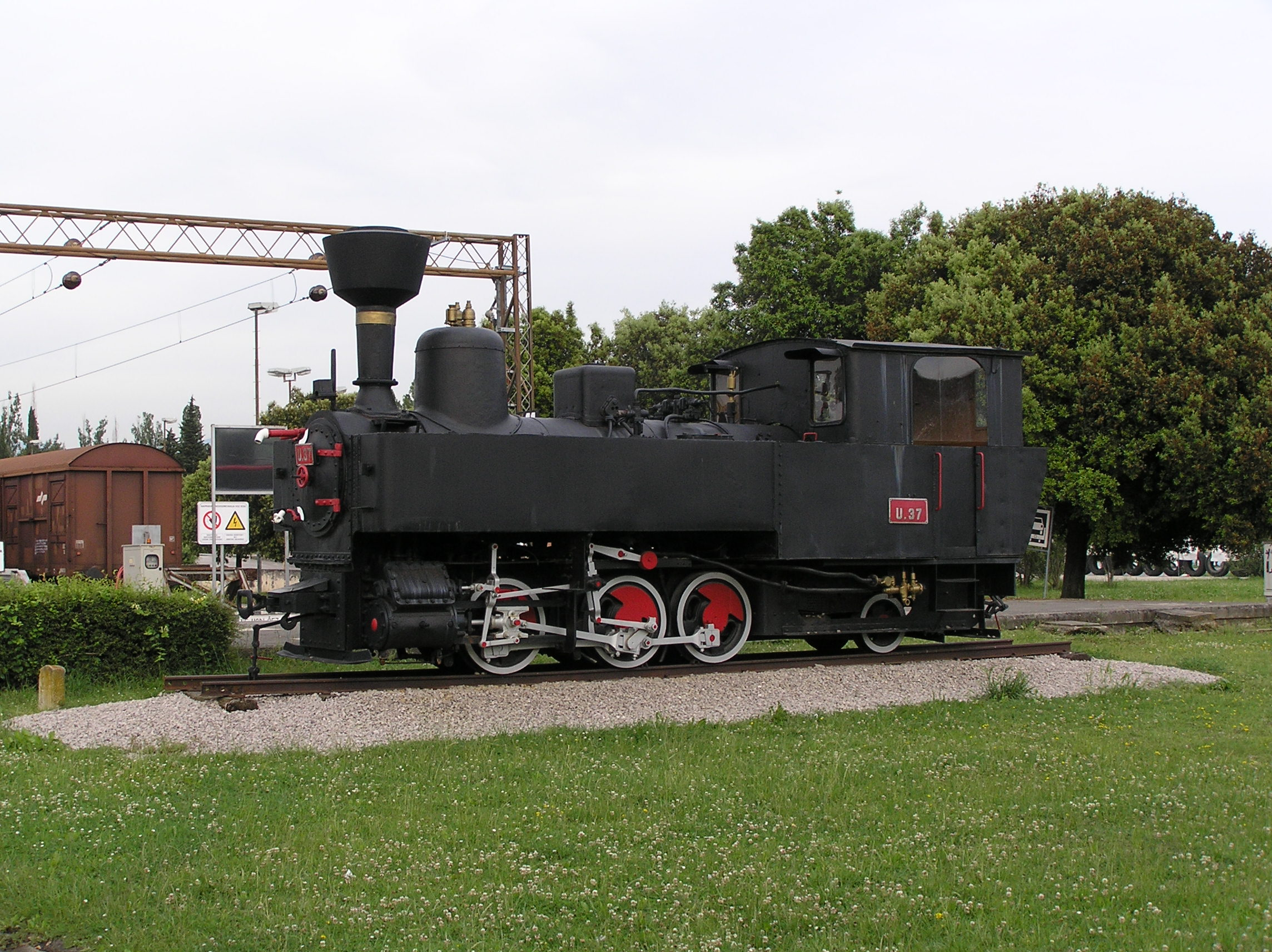 U.37 narrow gauge locomotive of Parenzana in Koper, Slovenia